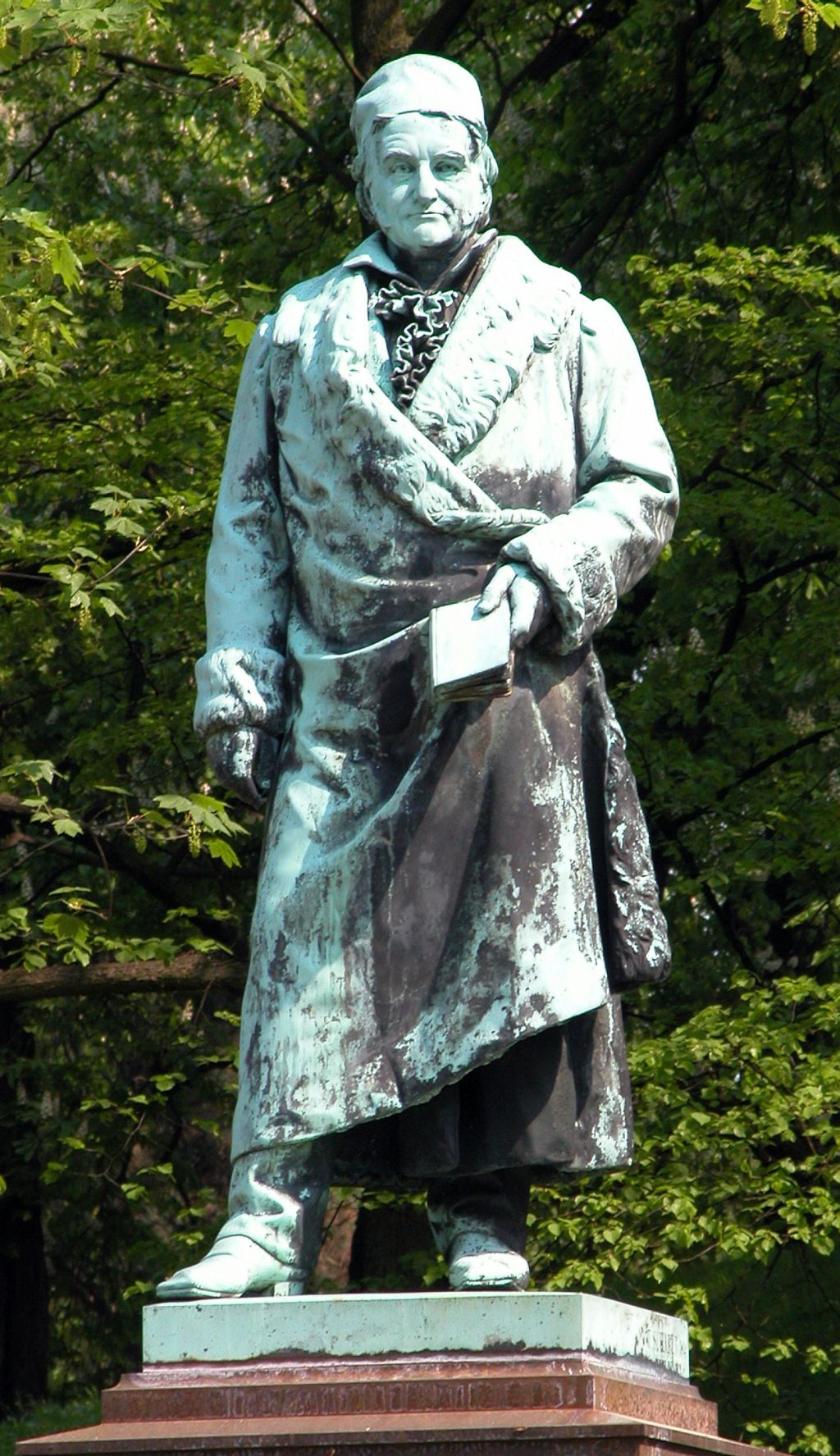 Brunswick, Germany: Carl Friedrich Gauß monument (detail)